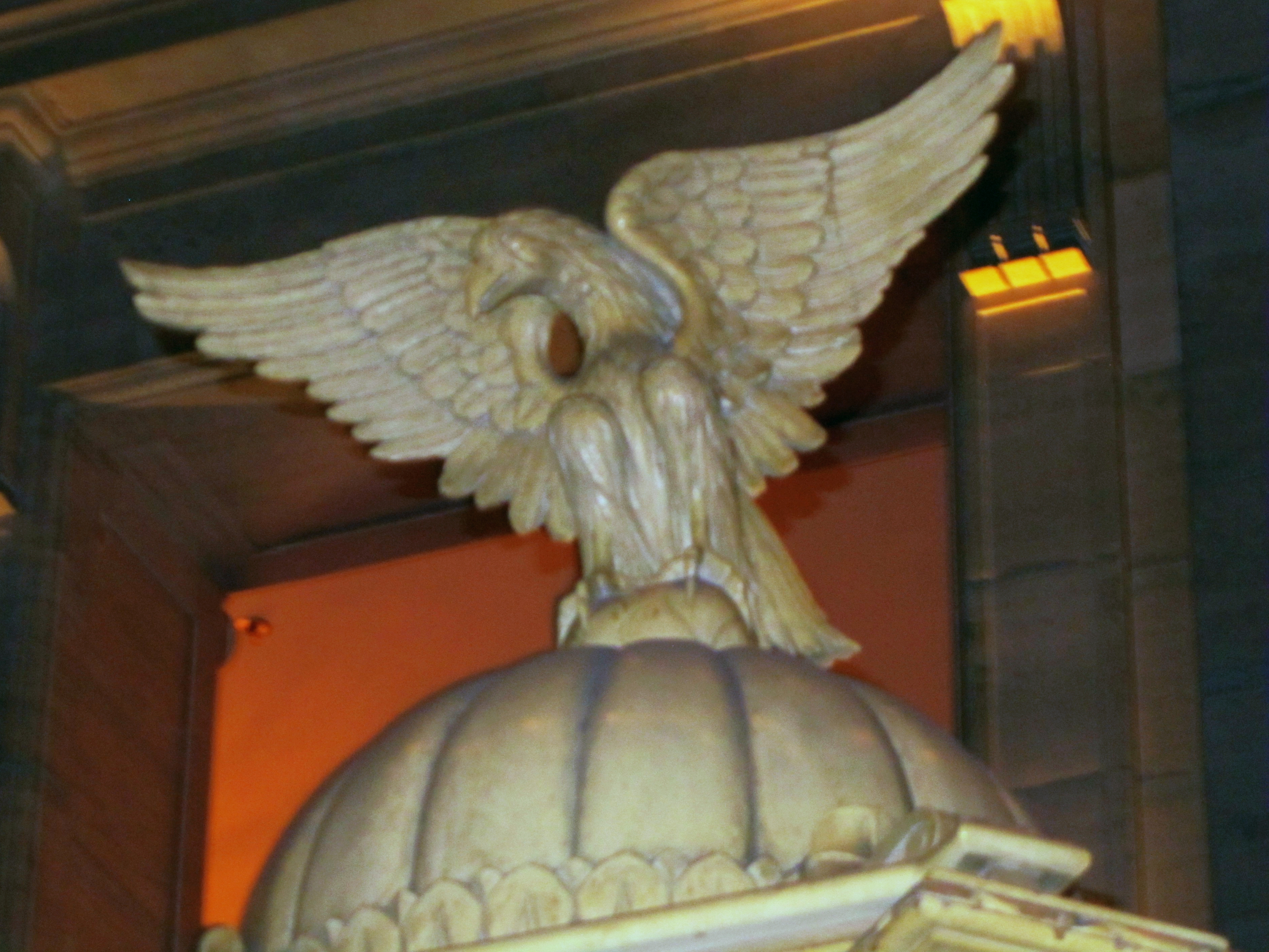 Hilton Hotel, Chicago, ballroom lobby, bald eagle ornament